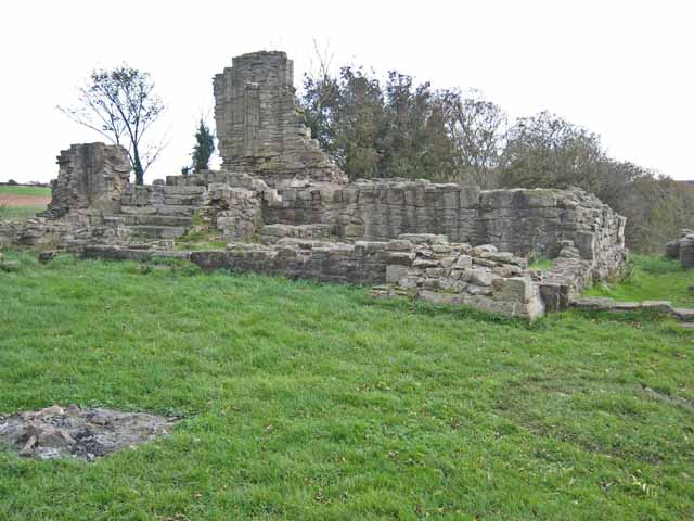 Ruins of Beaurepaire Prior's House The ruins of a grand Prior's manor house attached to the Priory of Beaurepaire, dating from the 13th century. Subsequently destroyed by the Scots and rebuilt, but now a desolate ruin. The name Beaurepaire has become corrupted to Bear Park and is also applied to the nearby former colliery village.